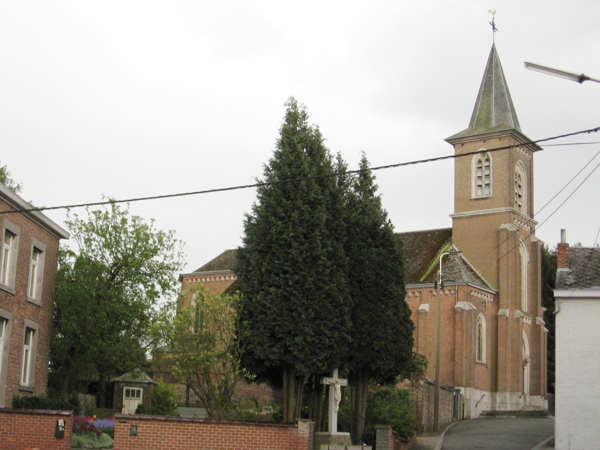 Church of Saint Peter and Paul in Blehen, Hannut, Liège, Belgium